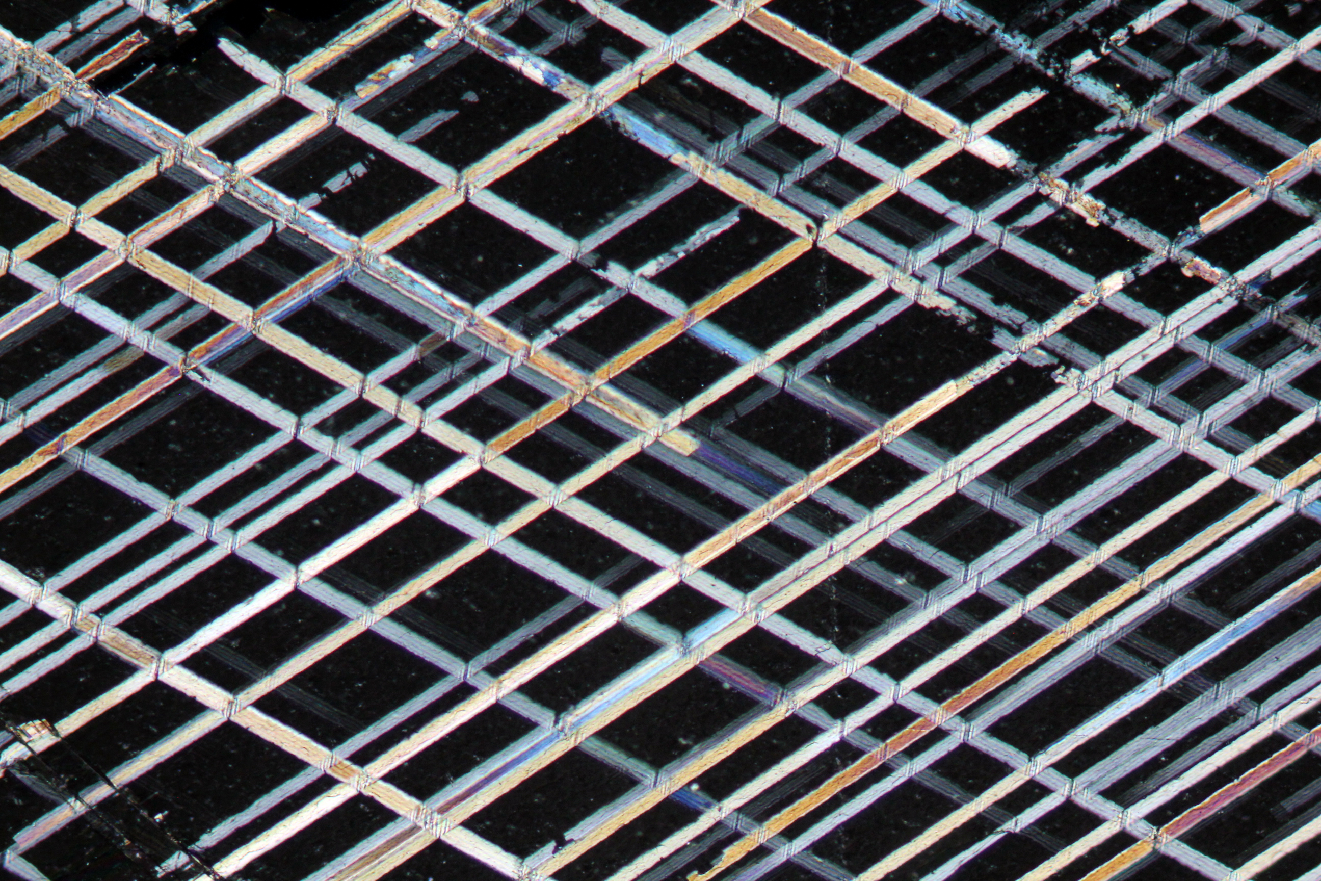 Regular Twinning Planes in Calcite. Crossed nicols image, magnification 10x (Field of view = 2mm)